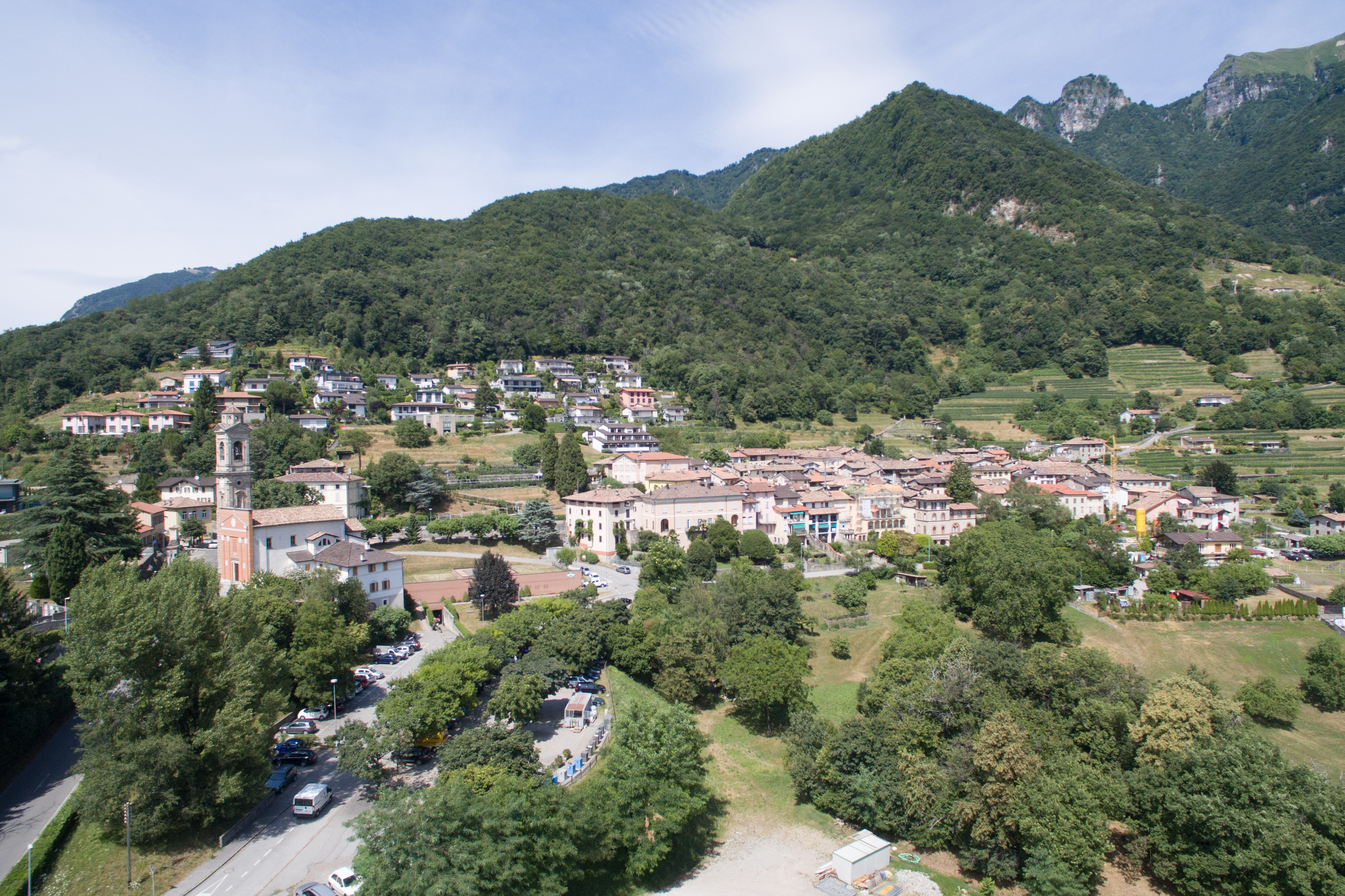 Village Rovio in southern Switzerland view from a drone